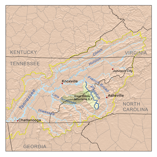 Map of the Pigeon River watershed.